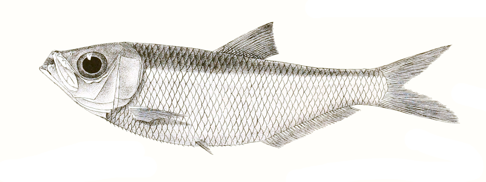 The species names / identity need verification - original names from plate are included here. The original plates showed the fishes facing right and have been flipped here. Pellona ditchela